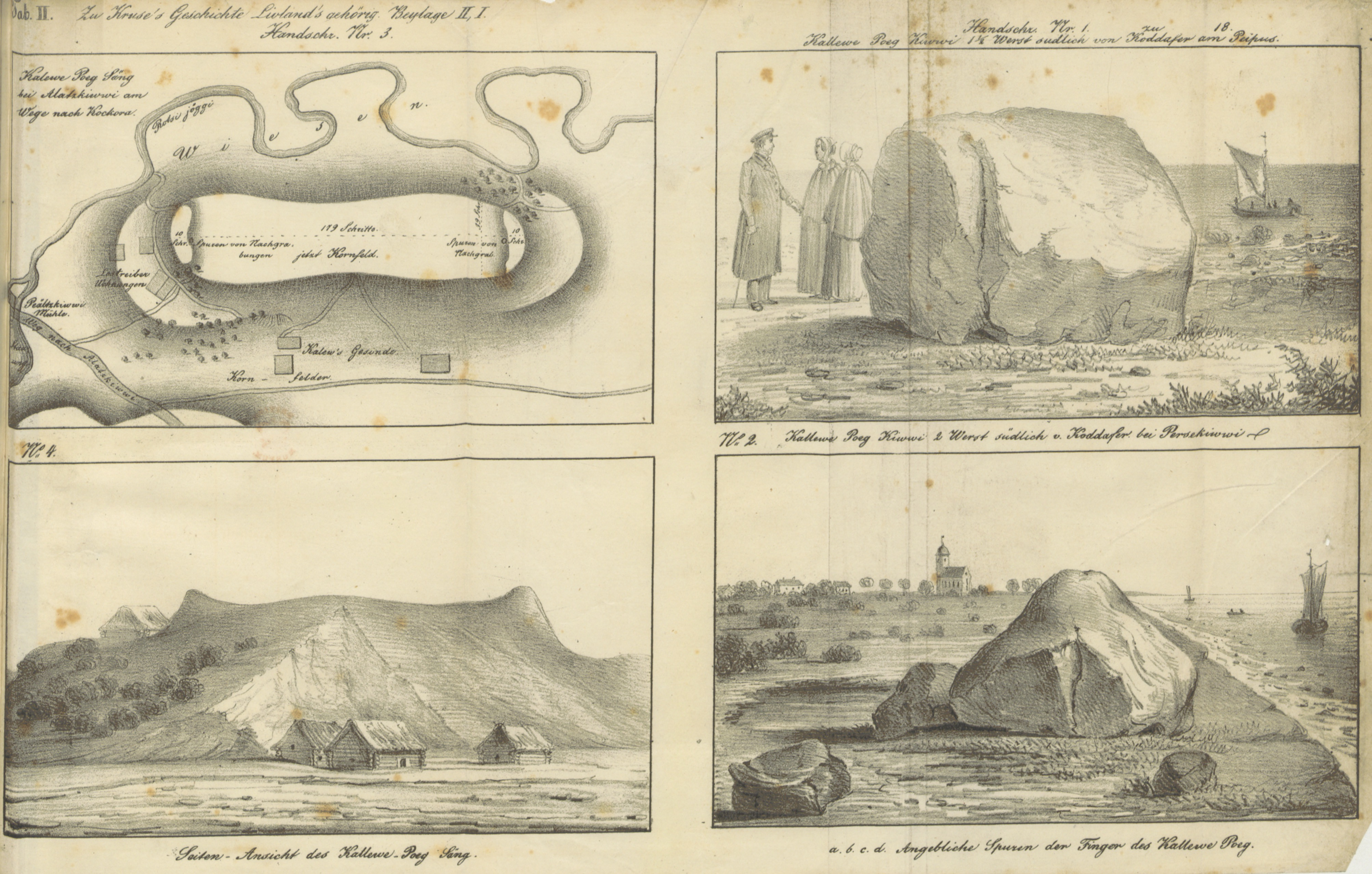 Stones and places in Estonia, related to Kalevipoeg